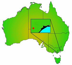 A map of the distribution of the Australian freshwater fish Galaxias lanceolatus, the tapered galaxias